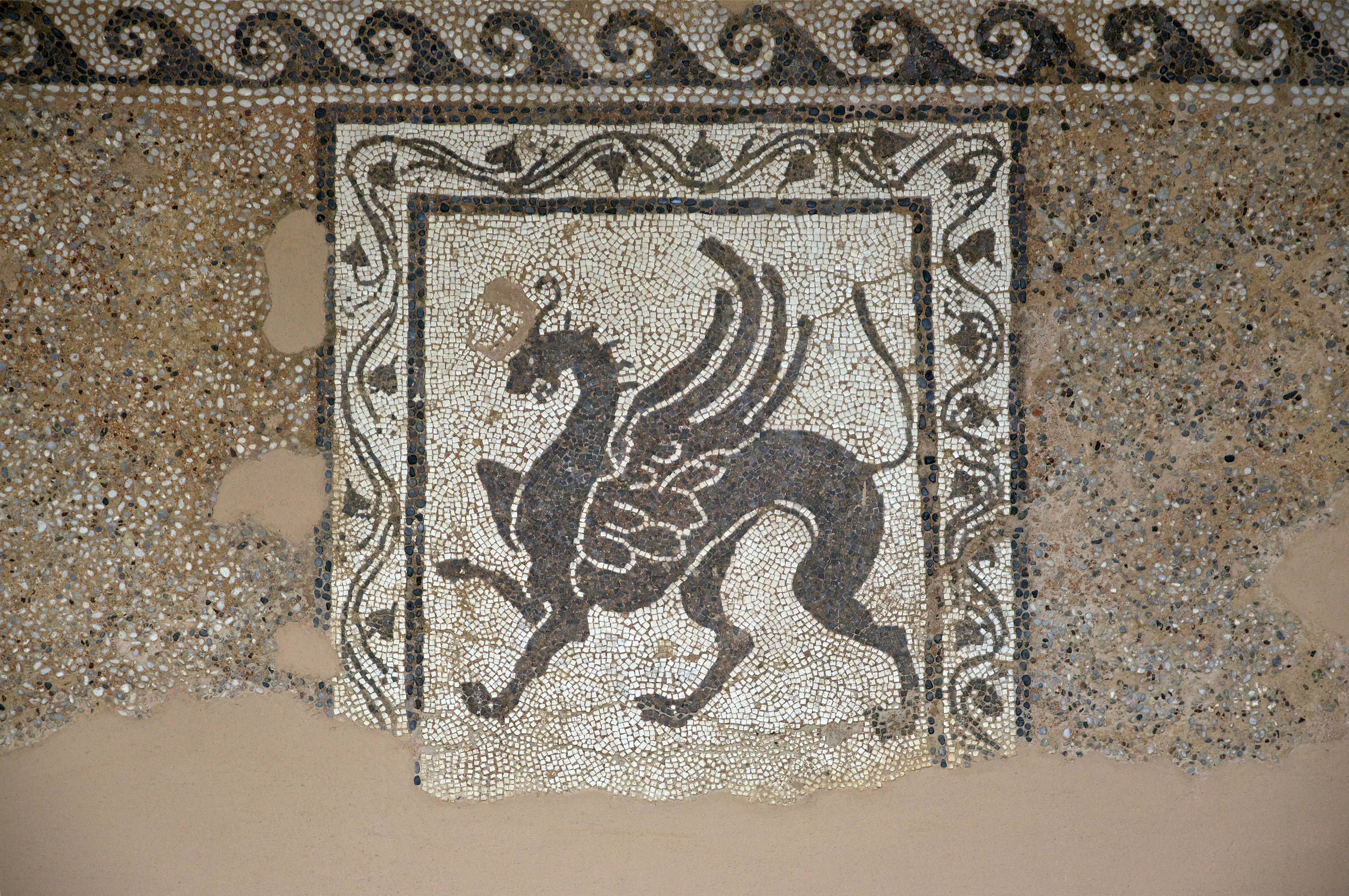 From the rhodian acropolis. It shows a griffin, made with non natural tesserae (stone cut into small cubic pieces), set in mortar. This technique is typical from 2nd half of 3rd century - 1st half of 2nd century BCE. The rest of the mosaic is made of natural pebbles. Archaeological Museum of Rhodes Native nameΑρχαιολογικό Μουσείο ΡόδουLocationRhodes, GreeceCoordinates36° 26′ 41.28″ N, 28° 13′ 37.56″ E Web Authority control : Q4785432 VIAF: 136425465 ULAN: 500310709 LCCN: no2008020725 GND: 5155120-2 SUDOC: 124199364 WorldCat institution QS:P195,Q4785432